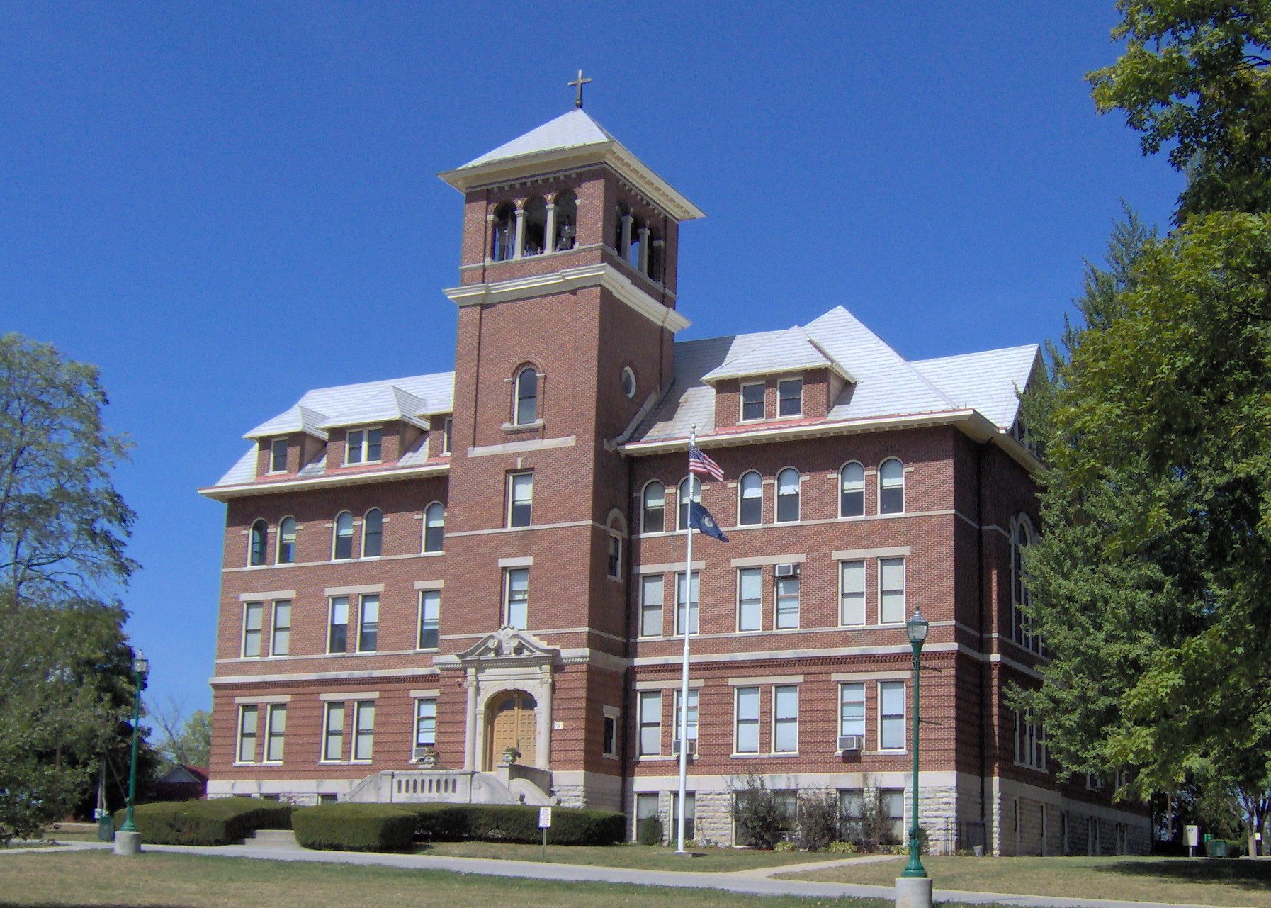 Cardome Centre is a historic property located in Georgetown, Kentucky. Currently, a community education center, previously the site was the home of Kentucky Governor James F. Robinson and a prestigious girls academy.